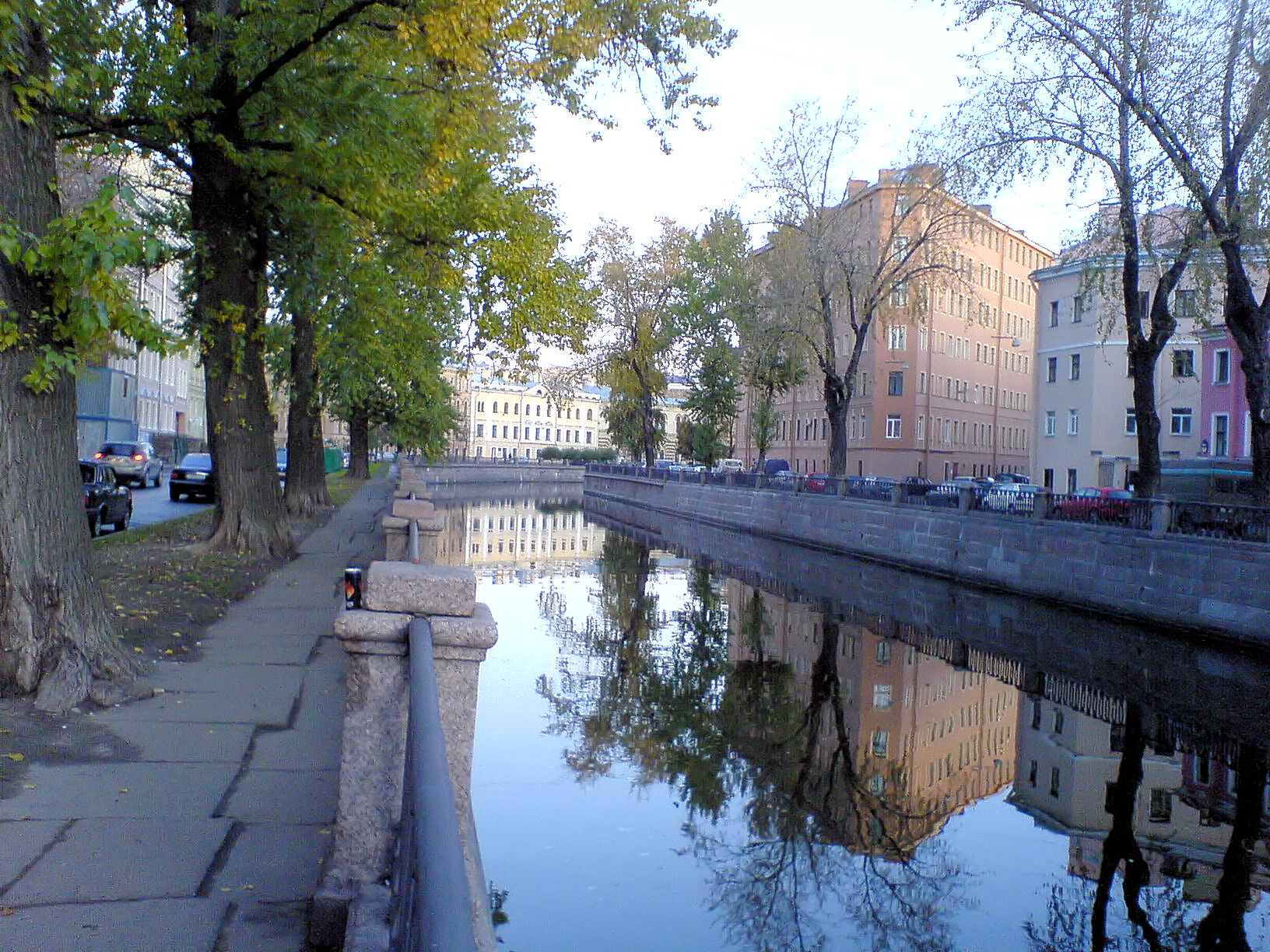 Griboedov Canal Embankment next to Harlamov Bridge